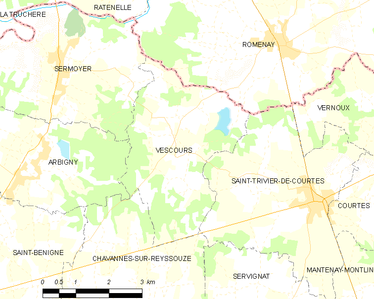 Map of French commune: Vescours Map commune FR insee code 01437.png